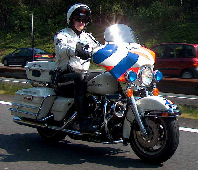 Dutch police motorcyclist, on a Harley-Davidson Electra Glide.